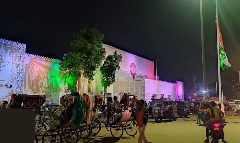 Ara Junction as seen from the main entrance on the road.